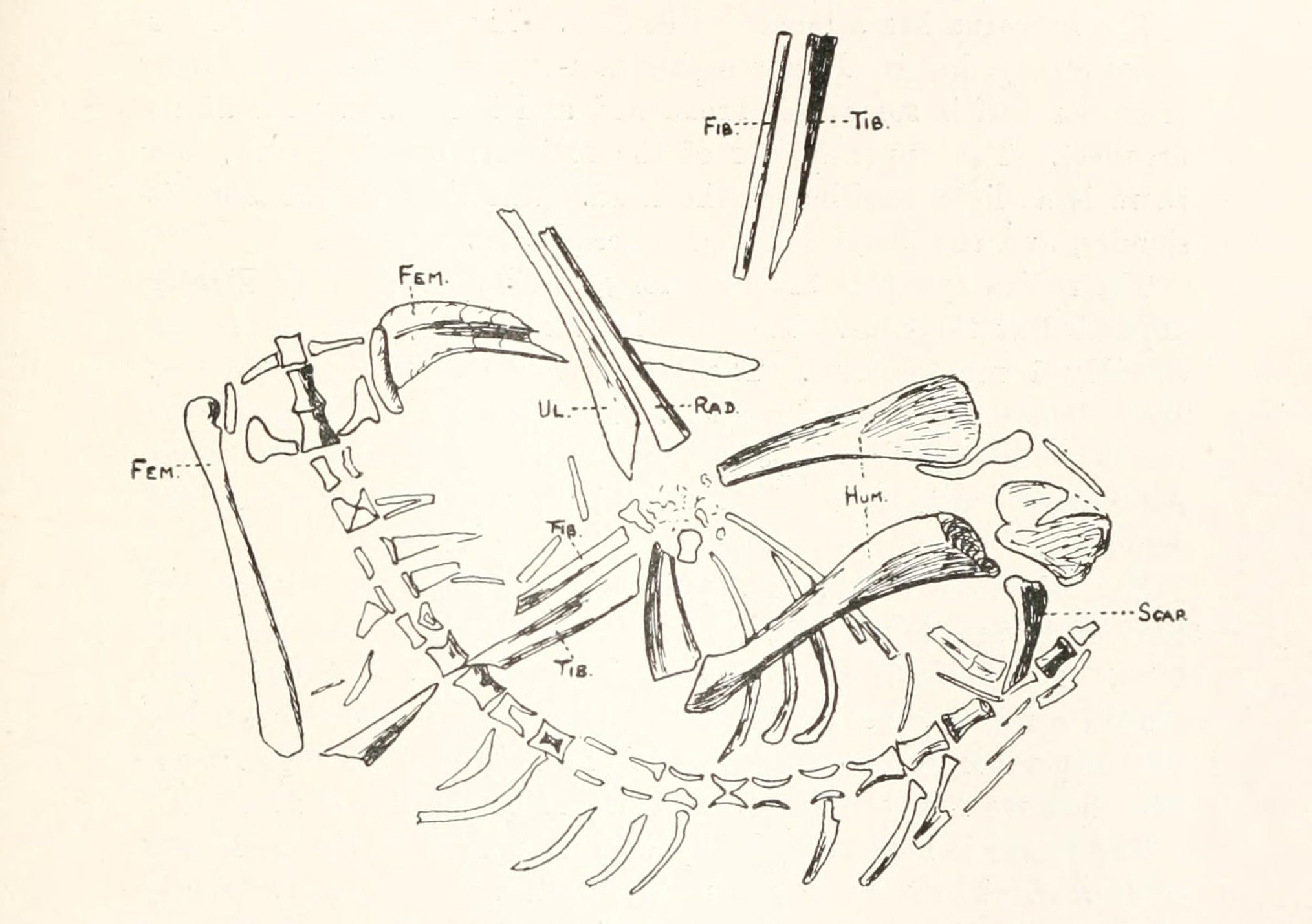 Illustration of the holotype skeleton of Macroscelesaurus janseni in "Some new carnivorous Therapsida, with notes upon the braincase in certain species" by Sydney H. Haughton (Annals of the South African Museum 12: 175-216).